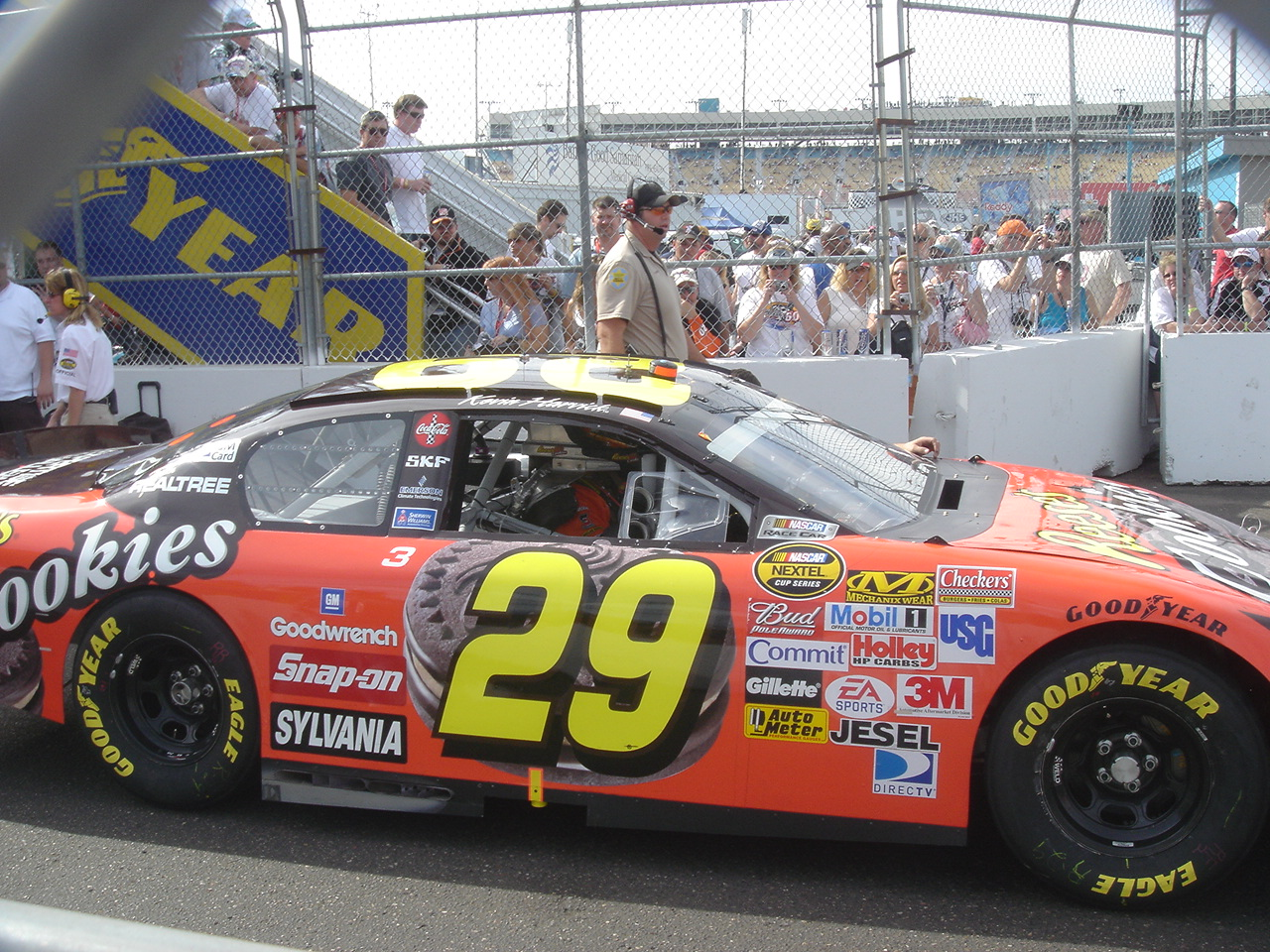 Kevin Harvick in the garage at Phoenix International Raceway during "Happy Hour" practice, November 11, 2006.